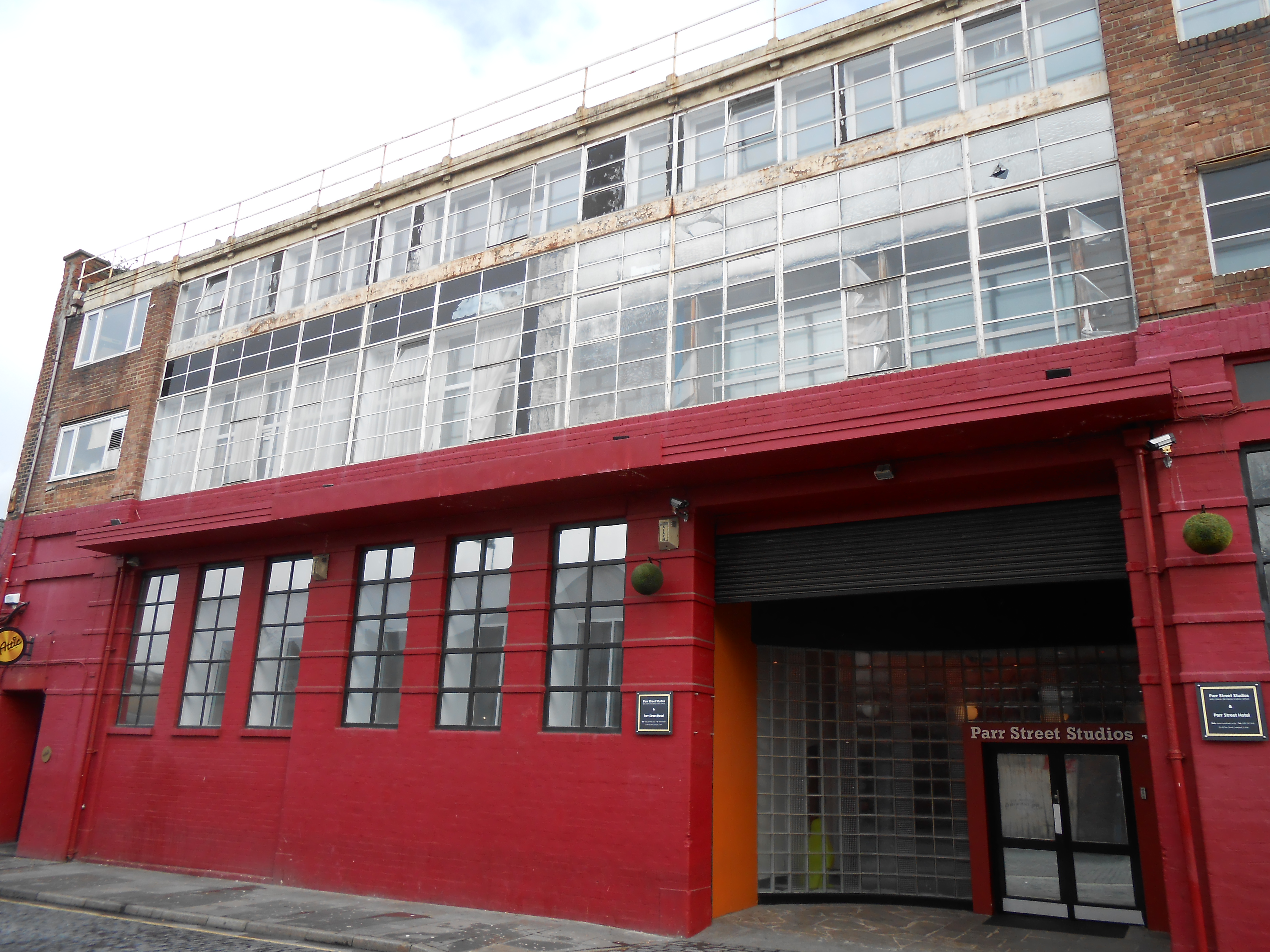 Parr Street Studios, Liverpool, England.